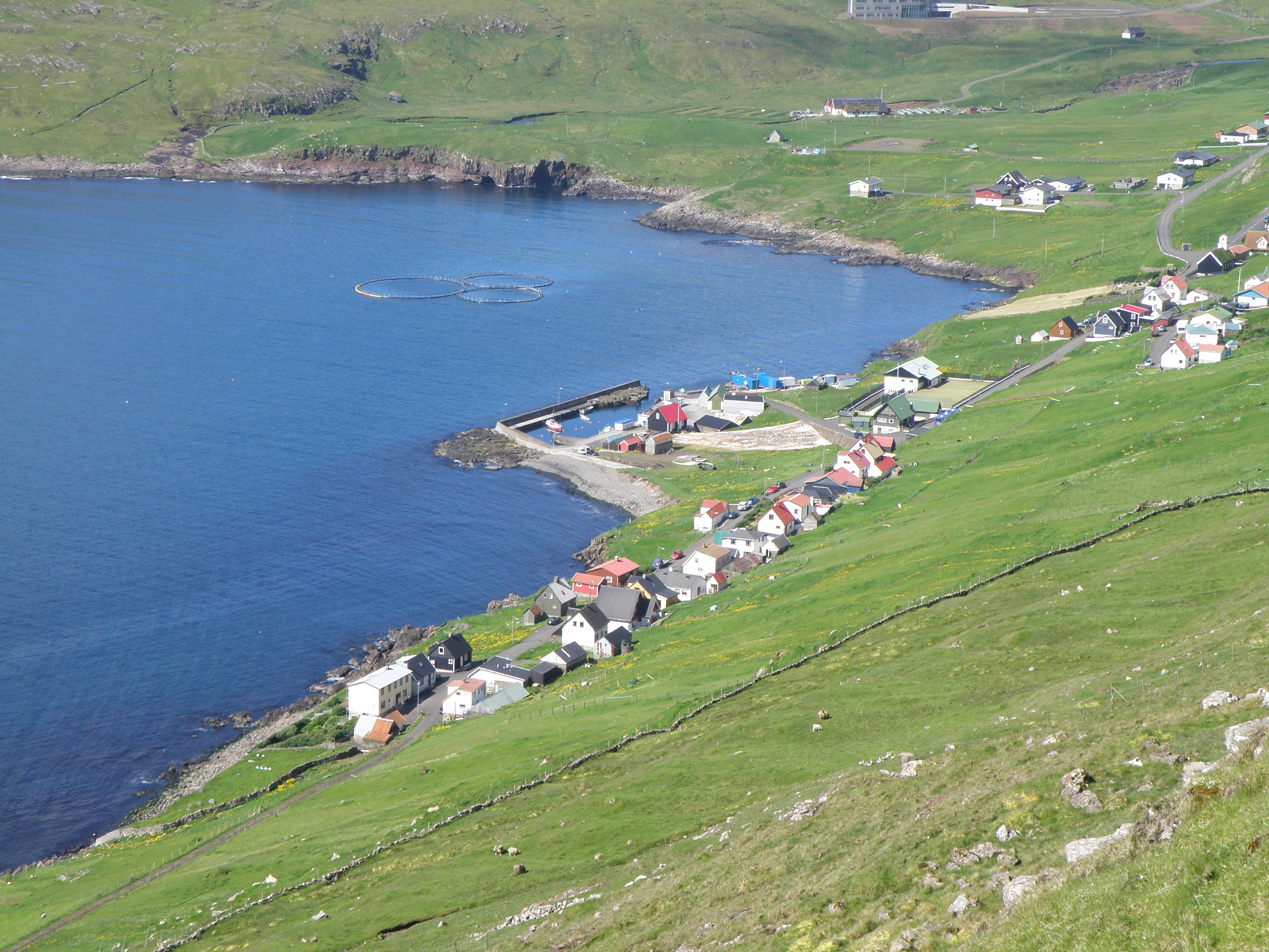 Hov is a village in Suðuroy, Faroe Islands. This is the view from a road above the village, the road and the area there is called Hovsegg, the view is towards south over the village Hov. Hov is located on the east coast of Suðuroy between the villages Porkeri and Øravík. The main road now goes through a tunnel which connects Hov with Øravík, it opened in 2007, before that all traffic had to pass by Hovsegg high up on the mountain north of Hov. There are columnar basalt formations next to the road in Hovsegg.